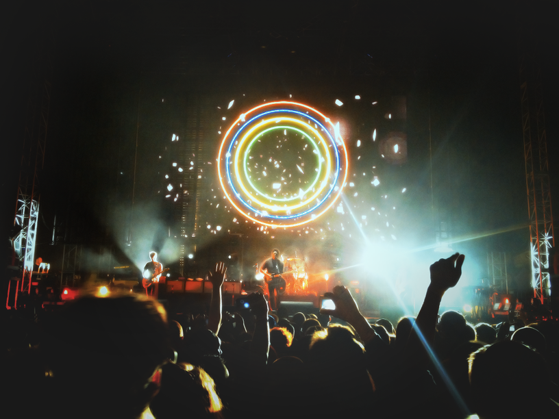 Bloc Party performing at Hard Summer Fest 2012 in Los Angeles, California.